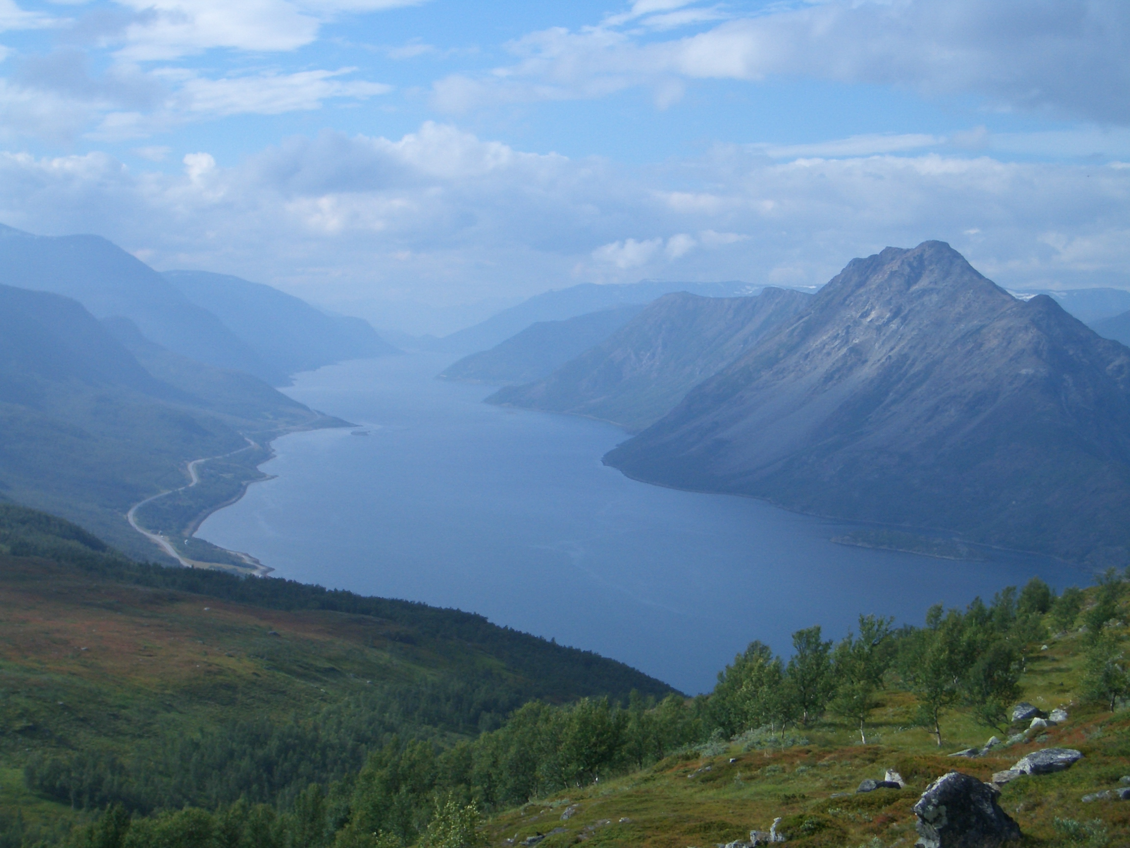 Langfjorden in Alta, Norway seen from mount Áilegas